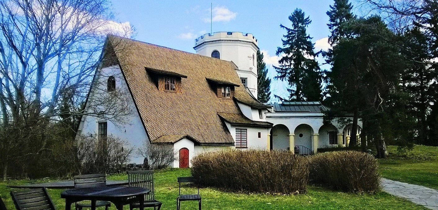 Tarvaspää, museom of Akseli Gallen-Kallela. Espoo Laajalahti